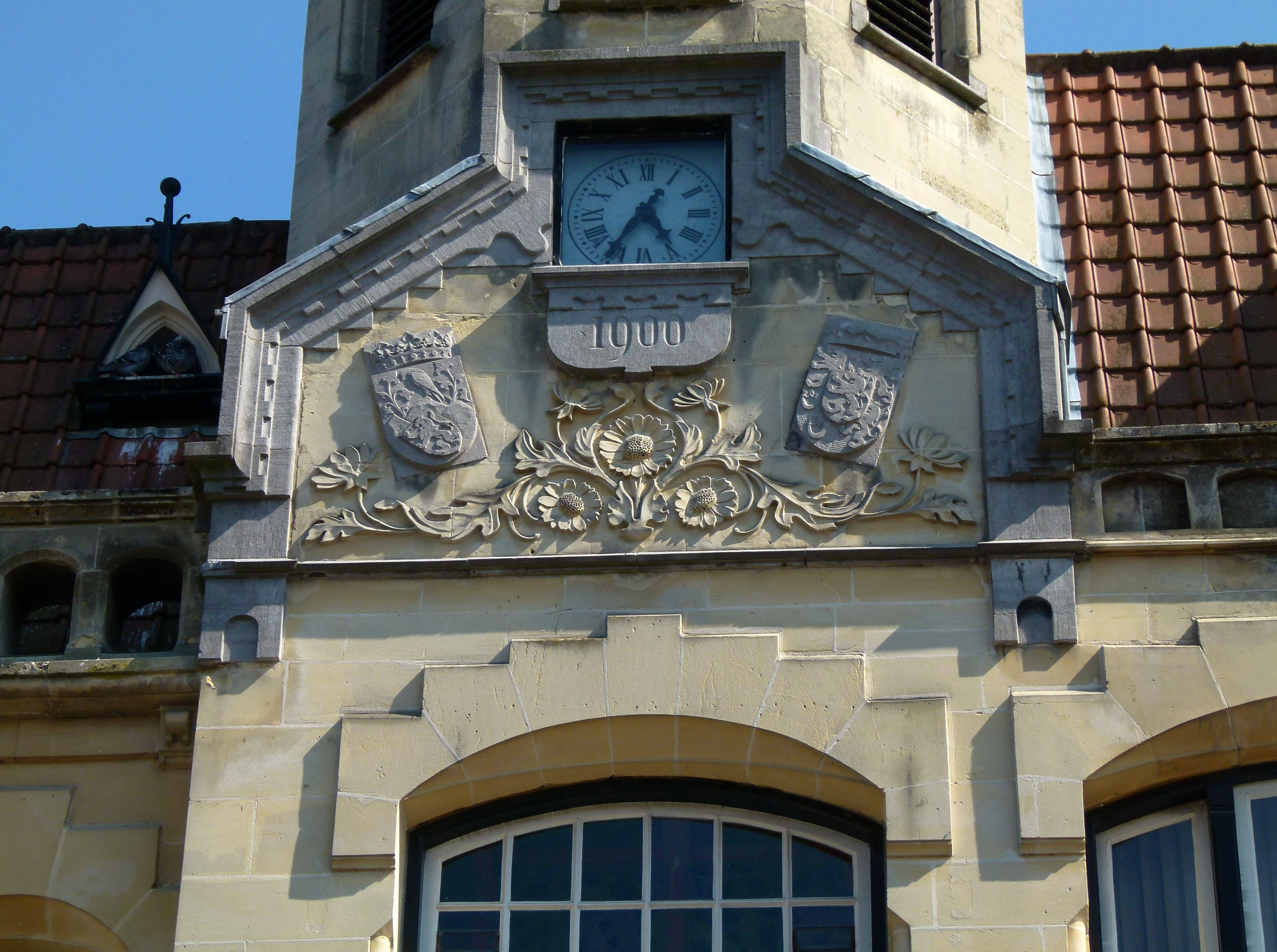 Valkenburg, Limburg, the Netherlands. Detail of old own hall in Grotestraat in the center of Valkenburg.